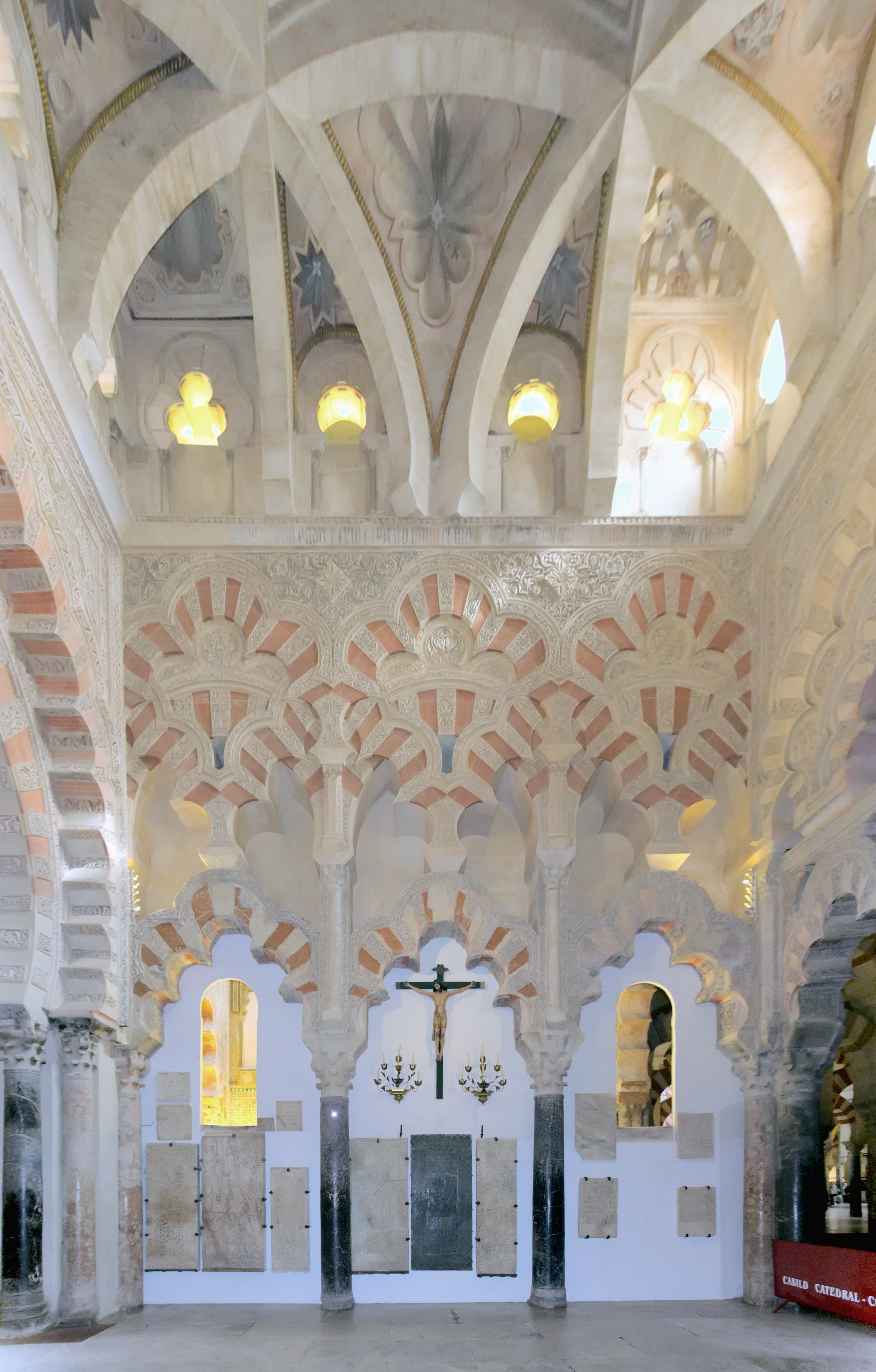 Mezquita de Cordoba - Capilla de Villaviciosa / Front Side